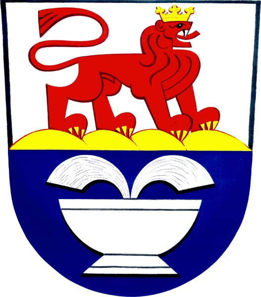 Municipal coat of arms of Konstantinovy Lázně village, Tachov District, Czech Republic.